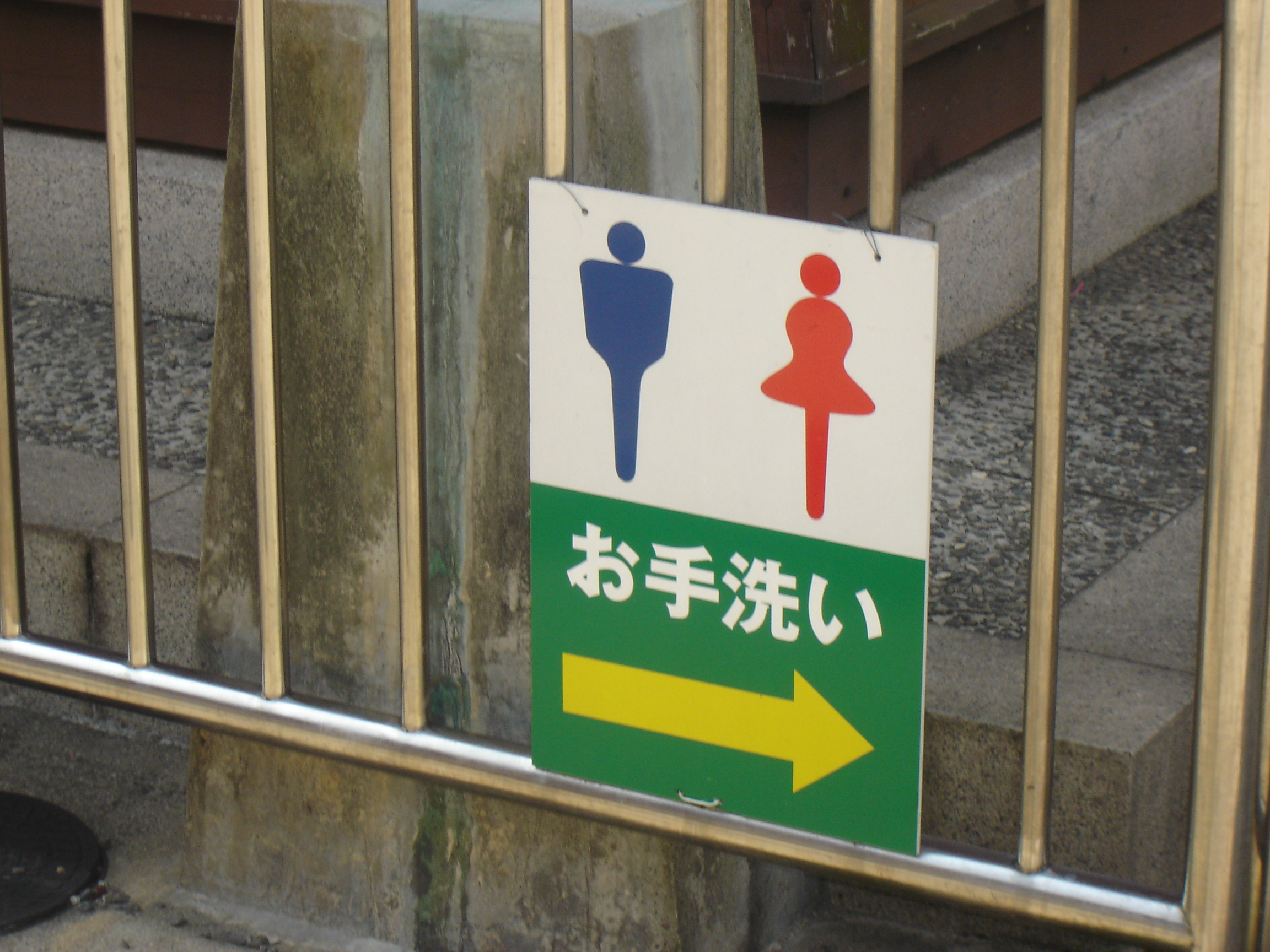 Toilet sign in Osaka, Japan.